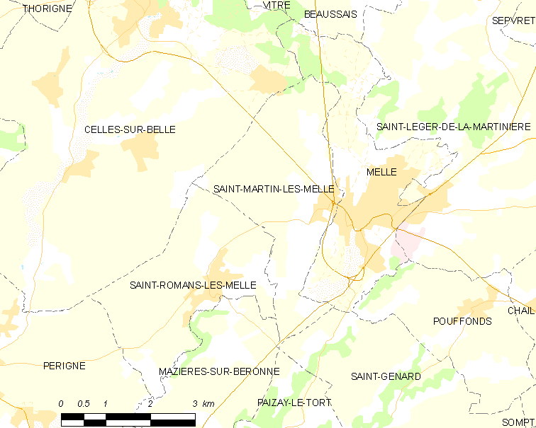 Map of French municipality Saint-Martin-lès-Melle